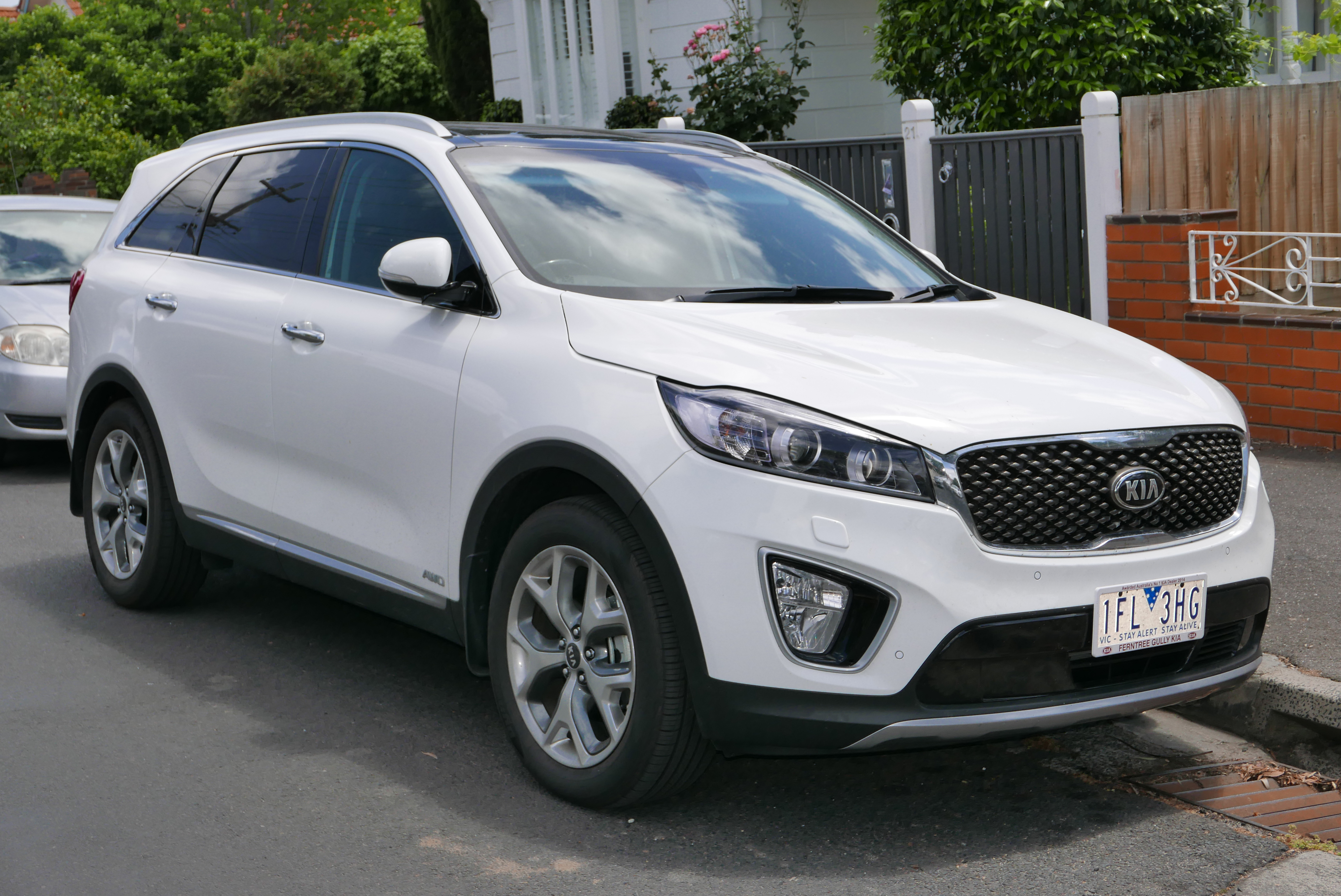 2015 Kia Sorento (UM MY15) Platinum CRDi wagon. Photographed in Brunswick, Victoria, Australia. Vehicle registration enquiry resultsJurisdictionVictoriaRegistration1FL3HGChassis codeKNAPH81BSF5115971Engine codeD4HBFH235026Compliance date2015-08Year of manufacture2015